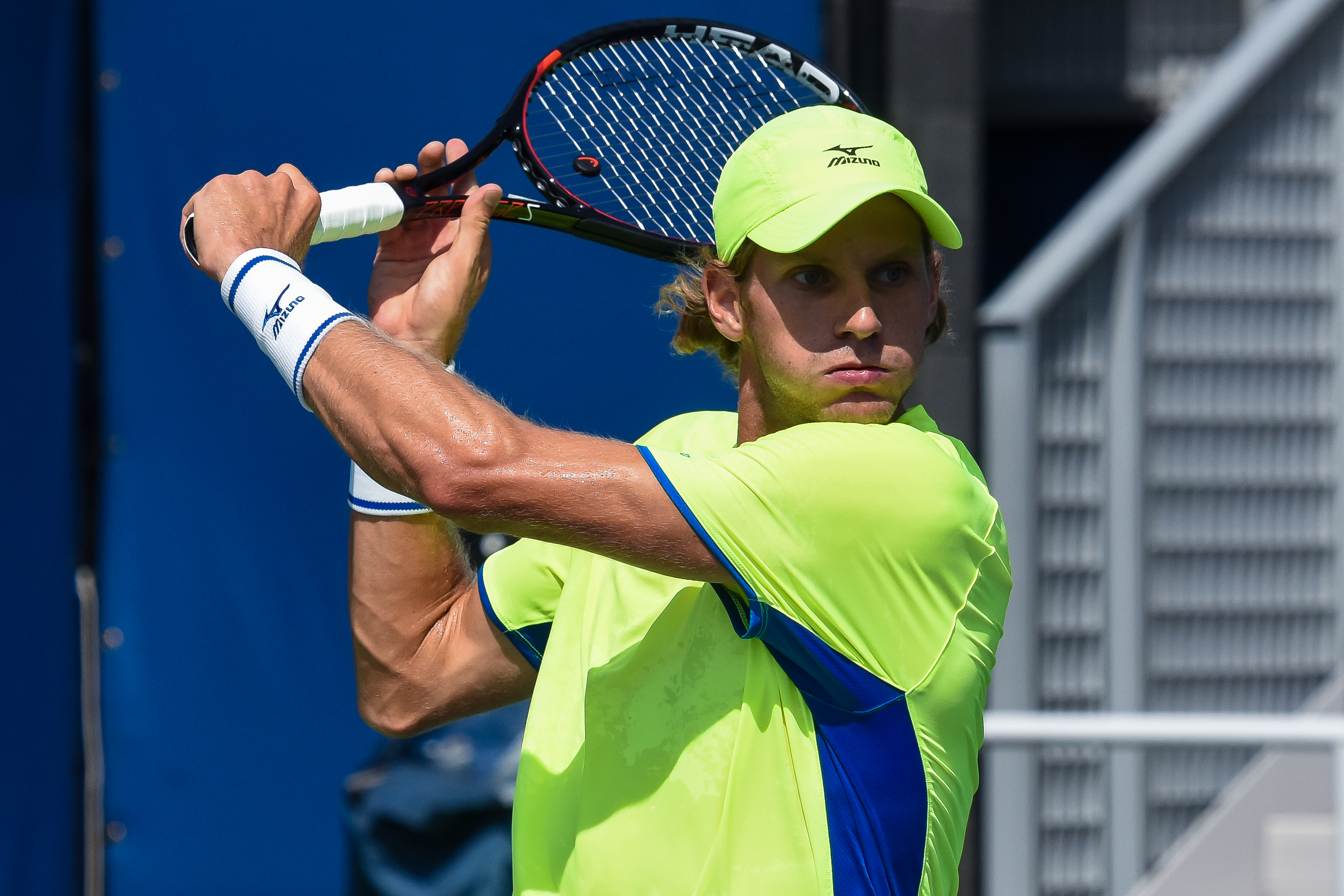 August 24, 2017 Court 10 Flushing, NY Blaz Rola.